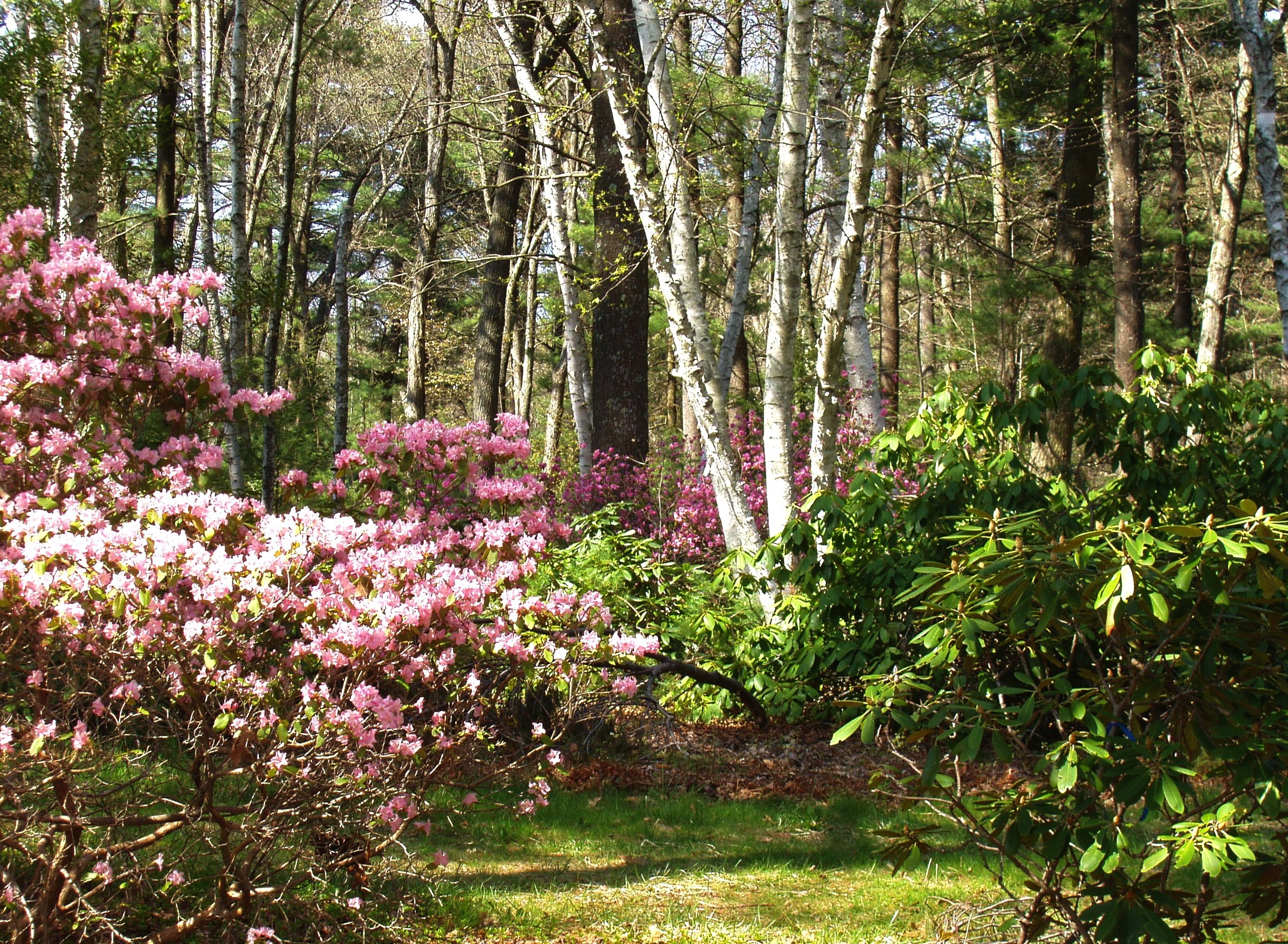 Case Estates, Weston, Massachusetts - Rhododendron garden. Photograph taken by me, April 27, 2006.